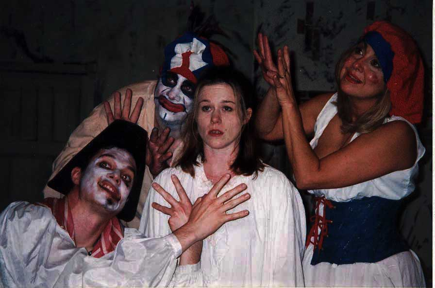 Trevor Murphy, Greg Wall, Leanne Fonteyn and Von Rae Wood in Brad Mays' production of "Marat/Sade," Theatre of NOTE, 2000.